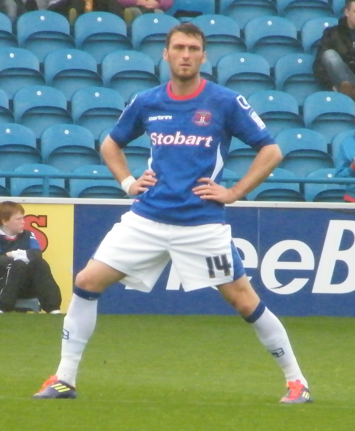 Lee Miller Carlisle v Brentford 8th October 2011